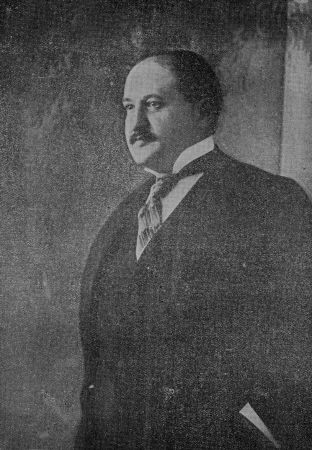 Alexandros Zachariou (1862-?): Greek businessman